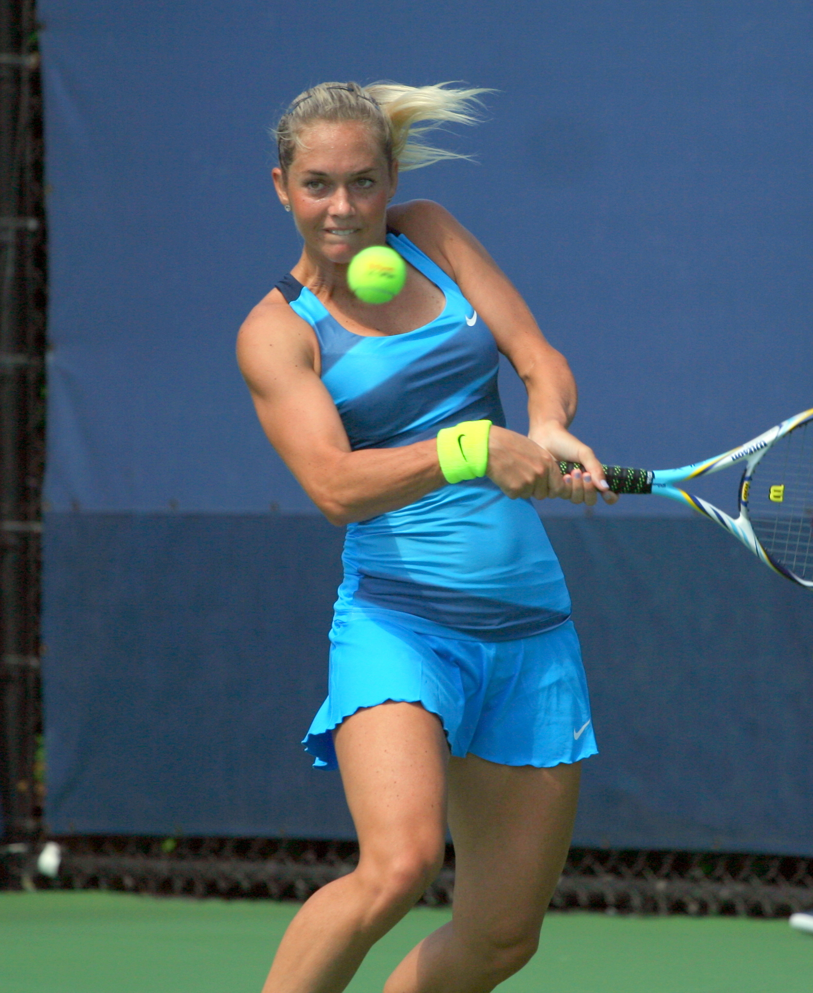 Klára Zakopalová at the 2012 US Open